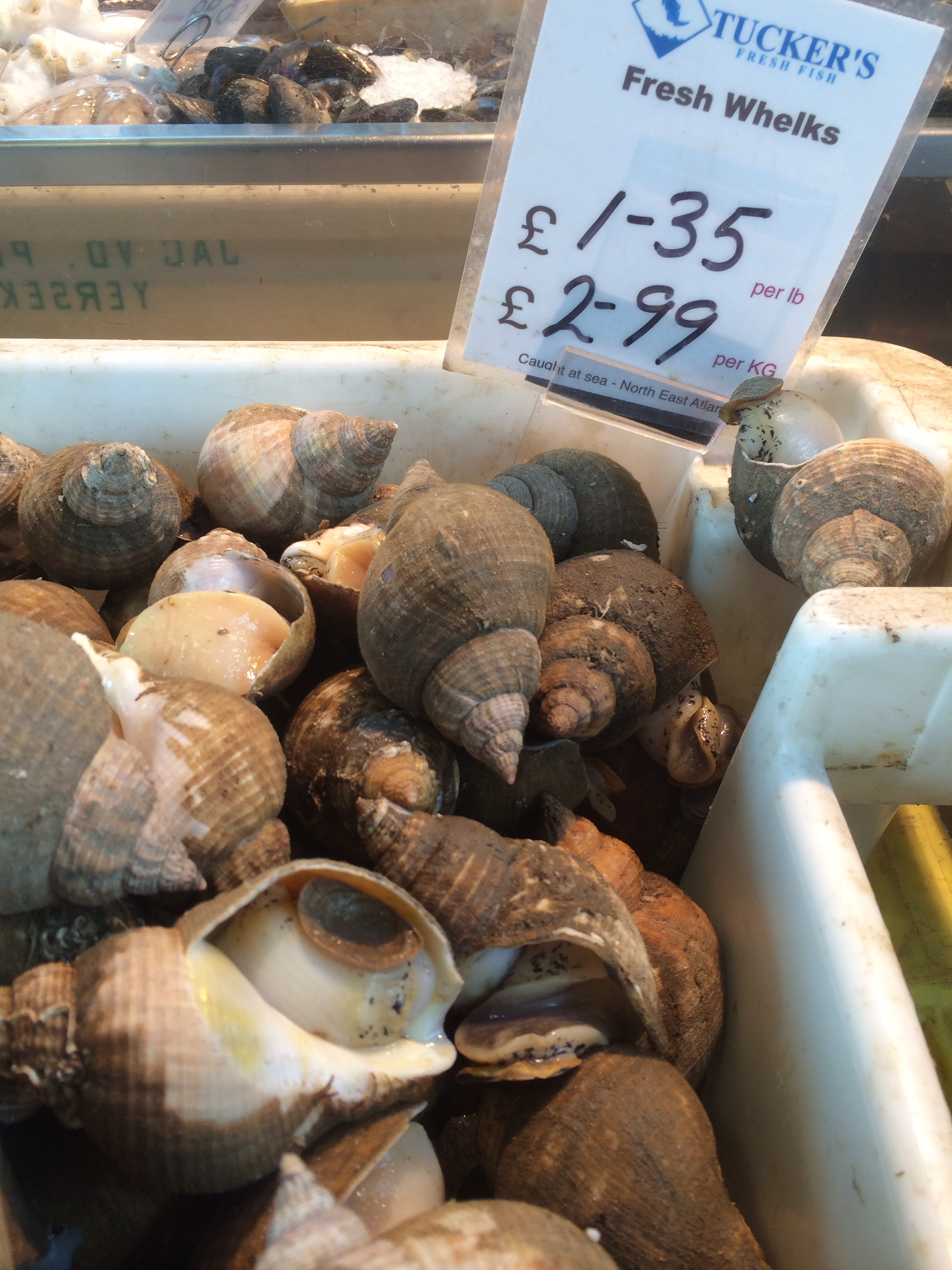 Whelks on sale at Tucker's fish stall, Swsnsea Market, collected from Swansea Bay, Wales